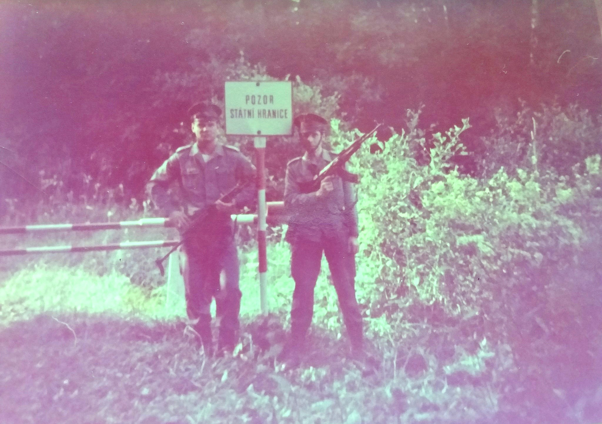 Border Protection Forces in Niedamirów